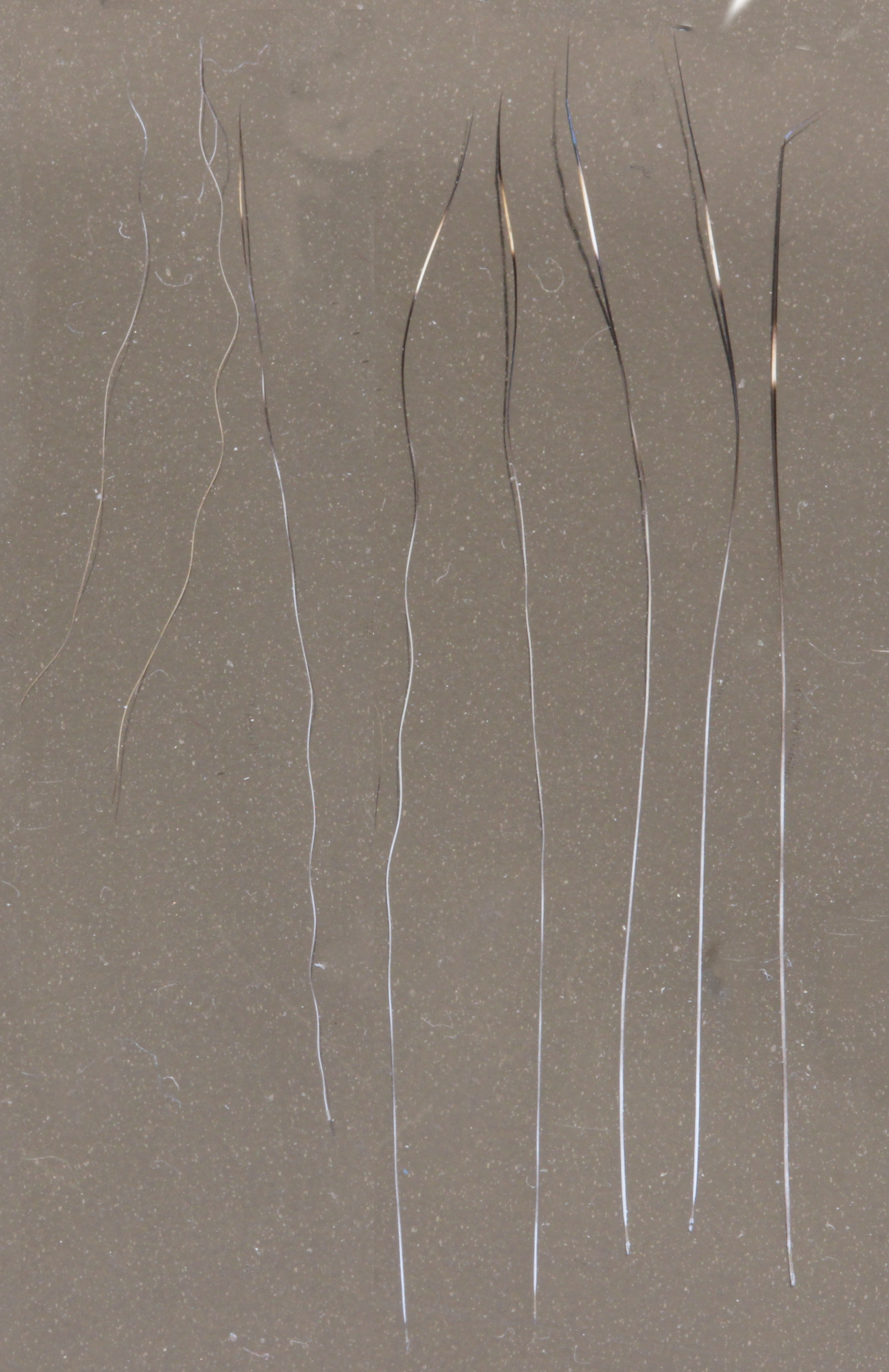 From left, down- or wool hairs from undercoat of domestic cat, then awn hairs,with woolly base to guard-hair-like top, with a guard hair on the right